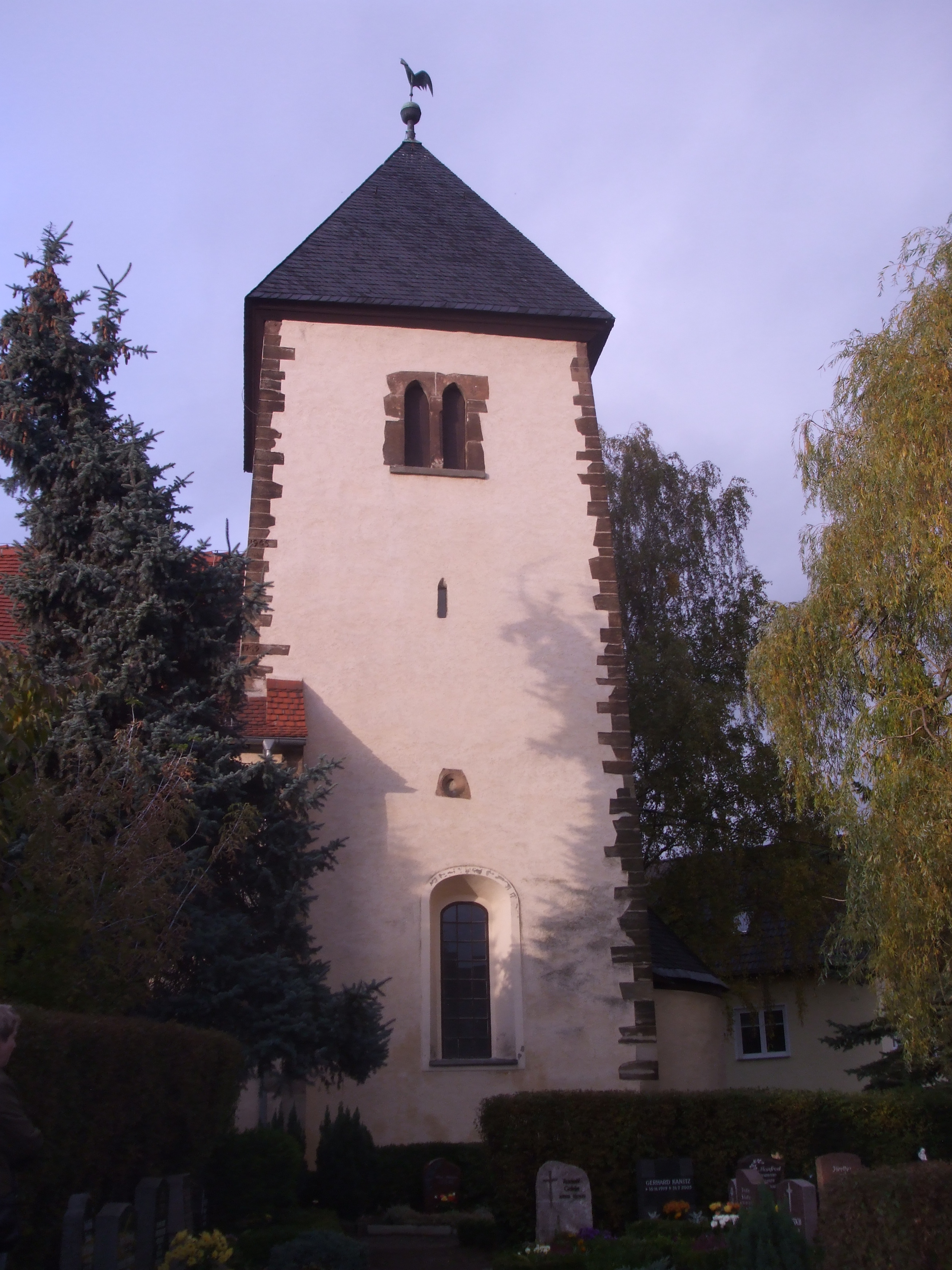 Tower of St. Ursula village church in the quarter of Lusan, Gera, Germany